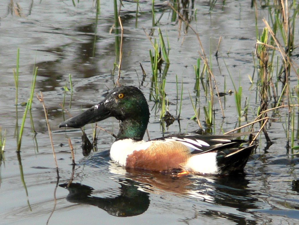 Northern Shoveler male